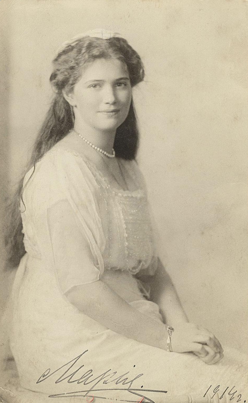 Maria Nikolaevna of Russia